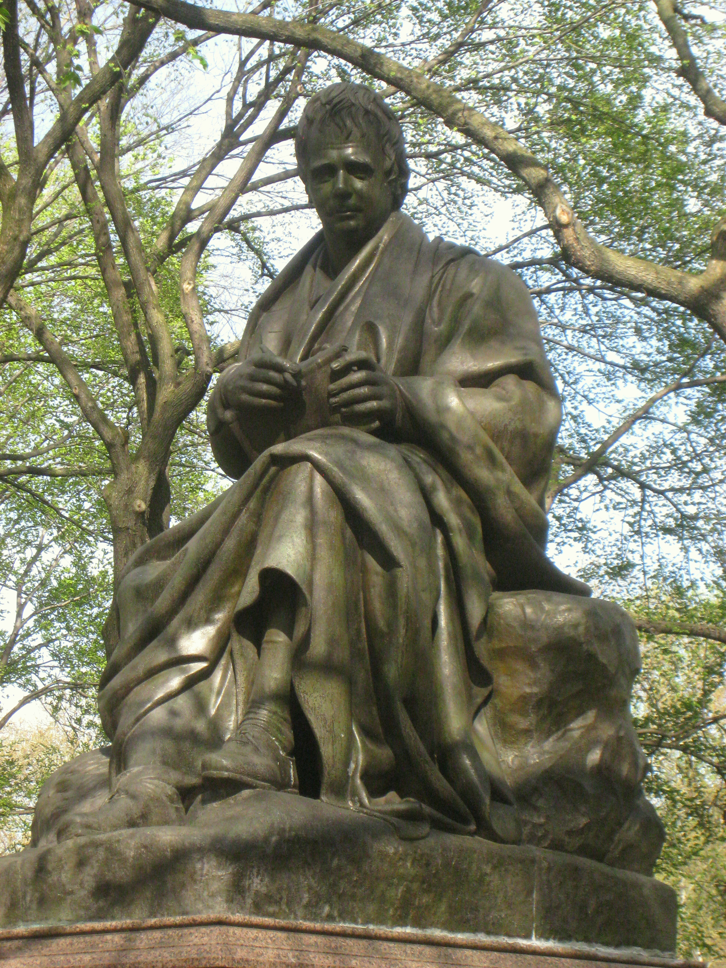 Walter Scott sculpture by Sir John Steell (1804–1891), Central Park, New York City, New York, USA.